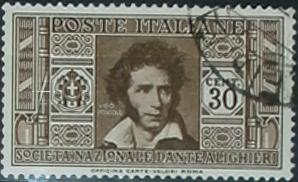 serie società pro-DanteAlighieri - francobolli del Regno d'Italia - 1932 - Ugo foscolo - stamps of the kingdom of Italy